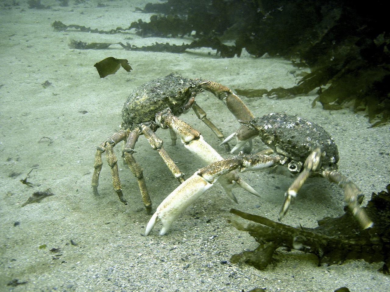 Hyas araneus Majidae (colour balance adjusted)